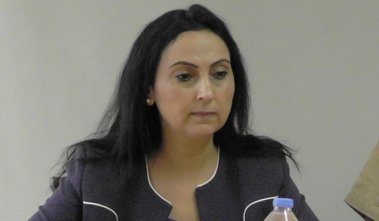 Original descrption: "Figen Yuksekdag"